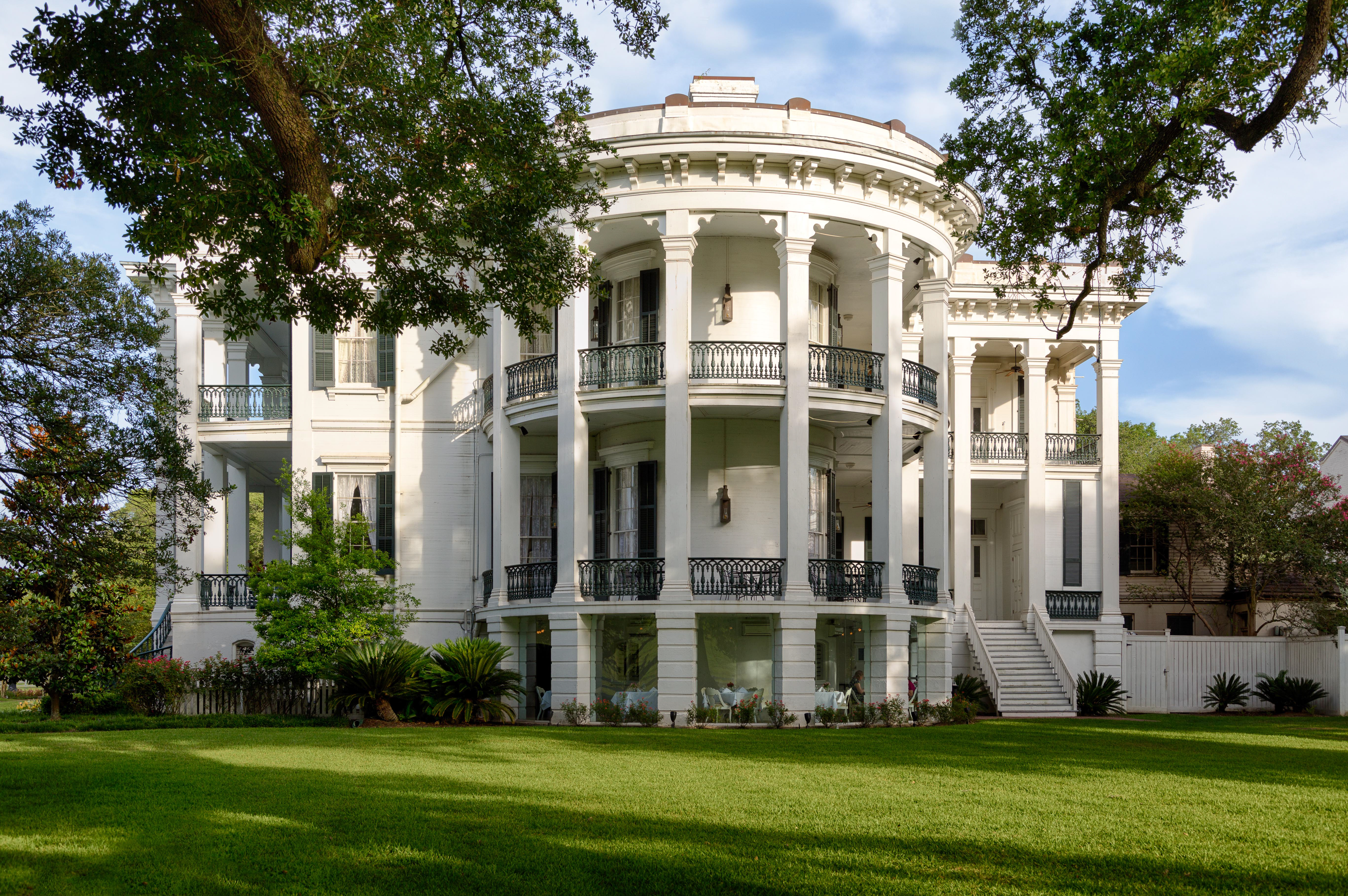 Nottoway Plantation House, Northwest of White Castle White Castle